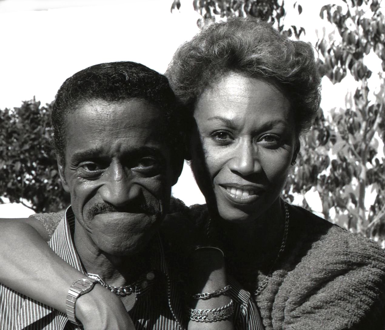 portrait of Mr & Mrs Sammy Davis